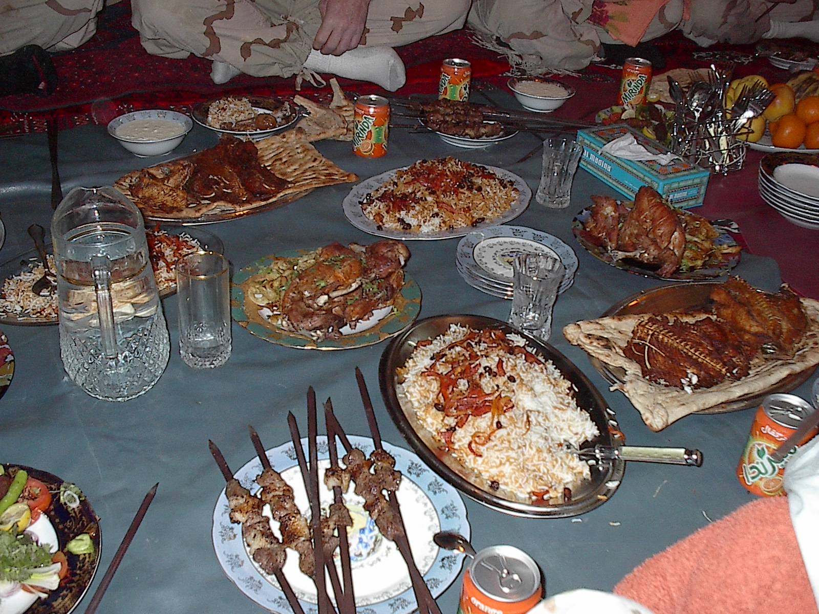 Afghani dinner served to U.S. Army staff in southern Afghanistan